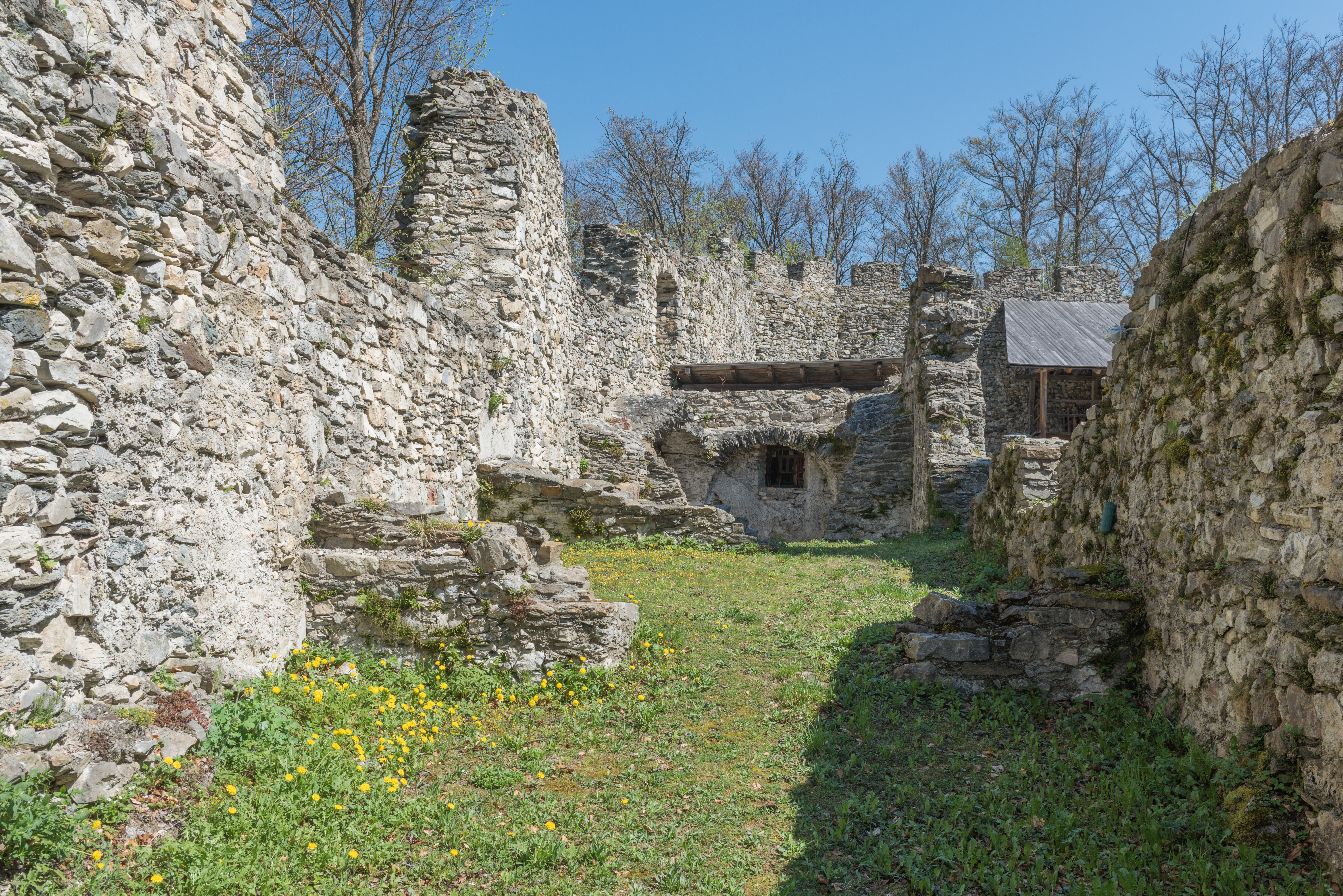 Castle ruins “Leonstein”, municipality Poertschach on the Lake Woerth, district Klagenfurt Land, Carinthia, Austria, EU